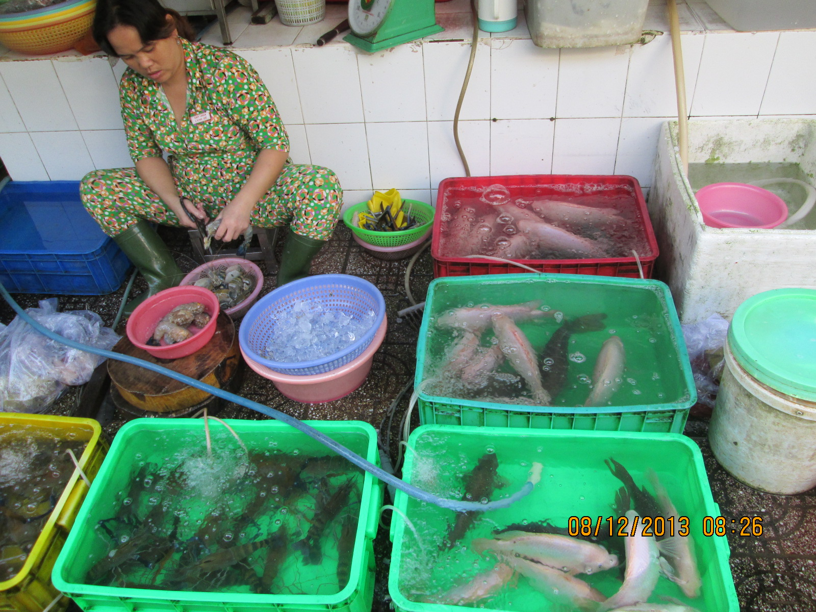 Fisher-woman cleaning fish.